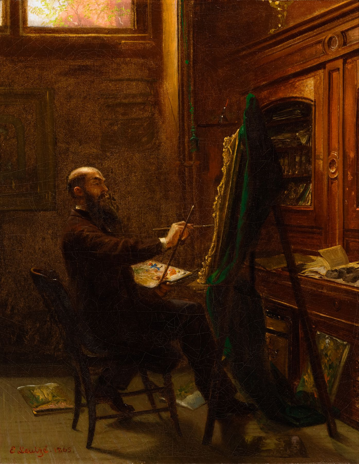 "Worthington Whittredge in His Tenth Street Studio," oil on canvas, by the German-American artist Emanuel Leutze. Courtesy of Reynolda House Museum of American Art, Winston-Salem, North Carolina